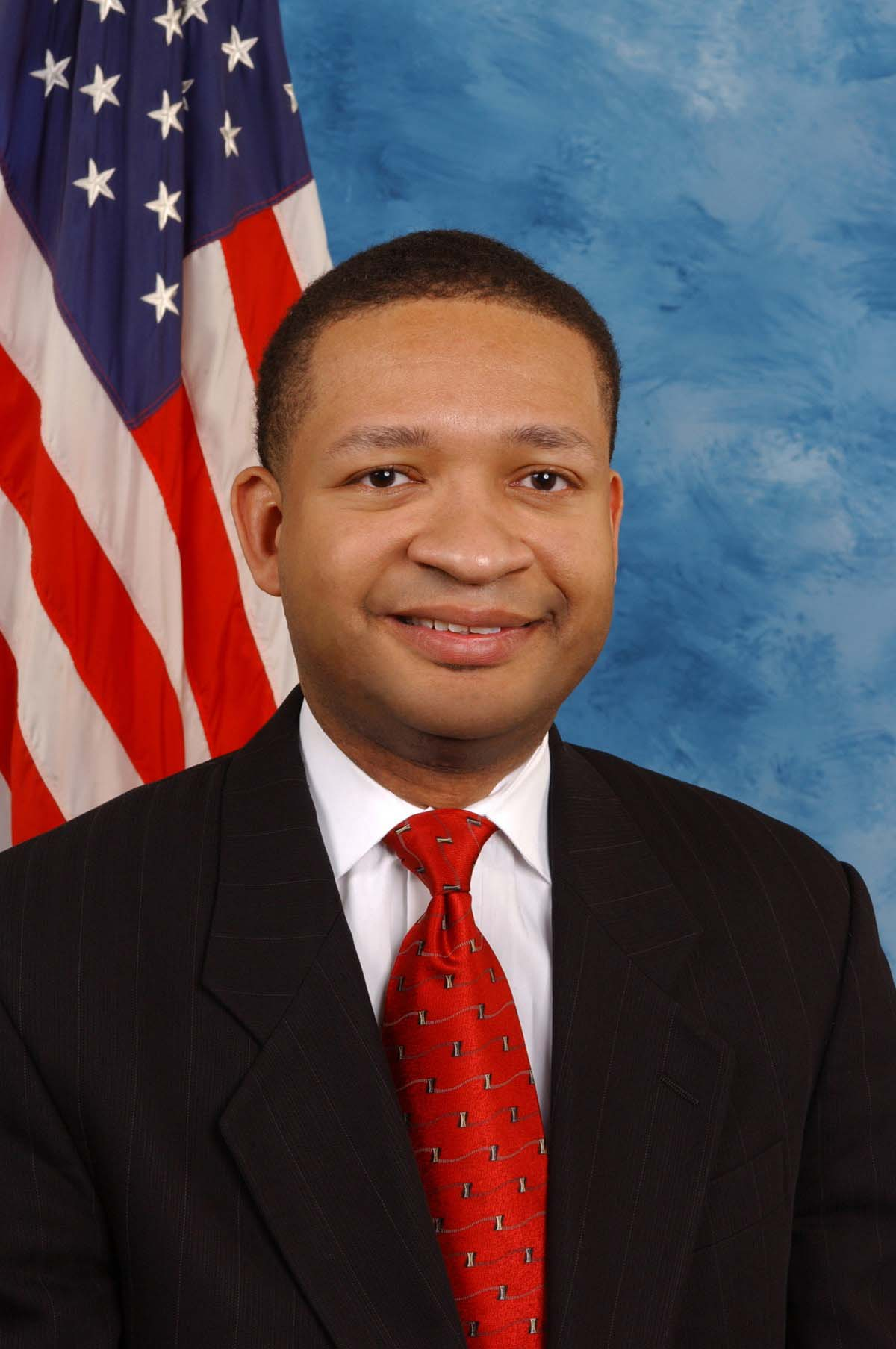 Artur Davis, U.S. Congressman.